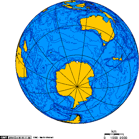 Orthographic projection over Austral Island